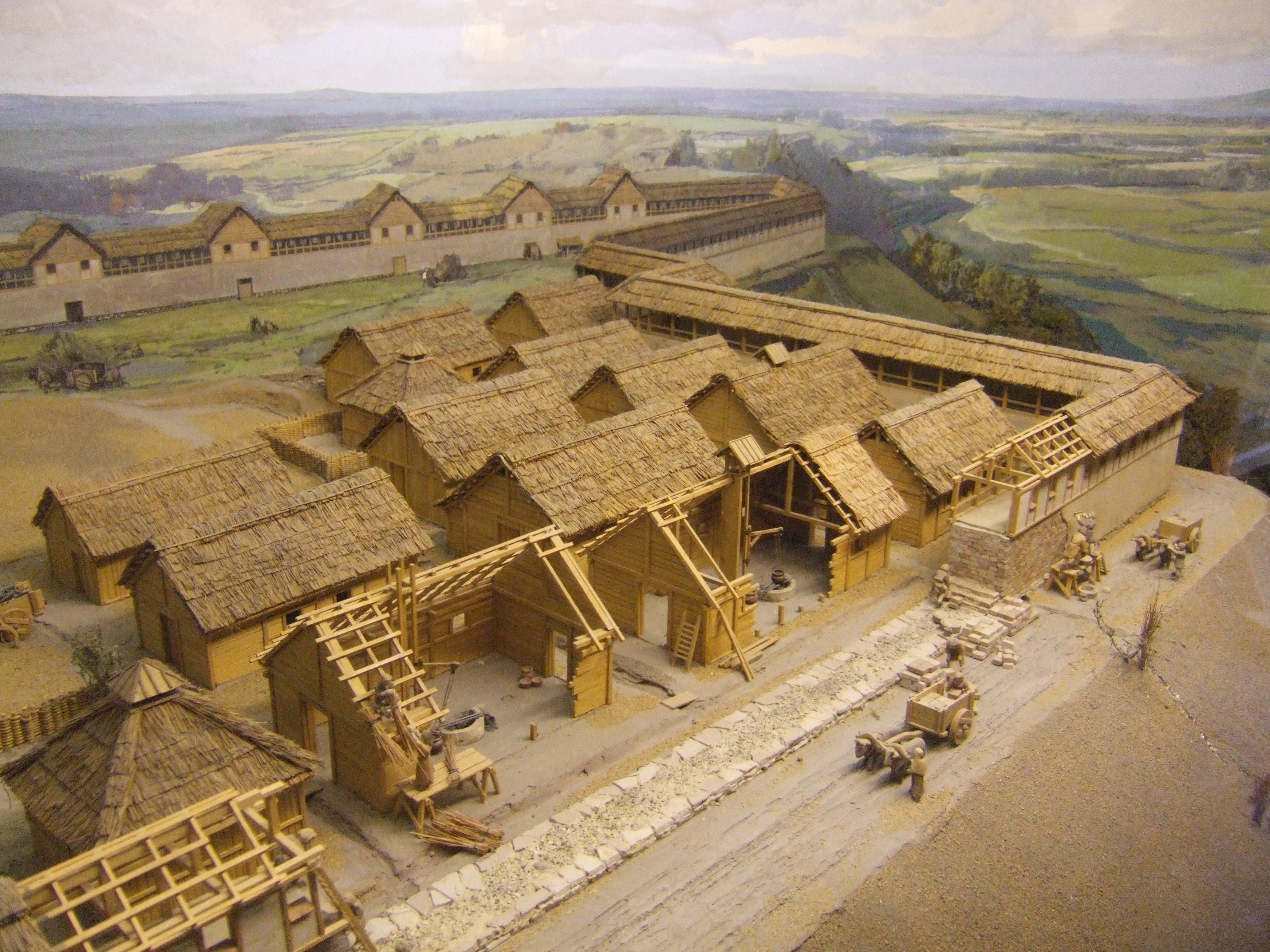 Erection of the Heuneburg (early 6th c. B.C) (detail of a diorama at the Heuneburg Museum, Hundersingen)